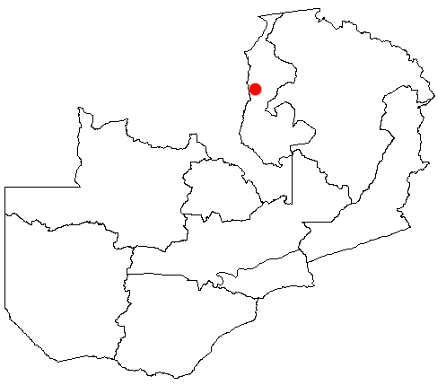 Mwense, Luapula province, Zambia Location Map; created with the GIMP. Made by User:Acntx.